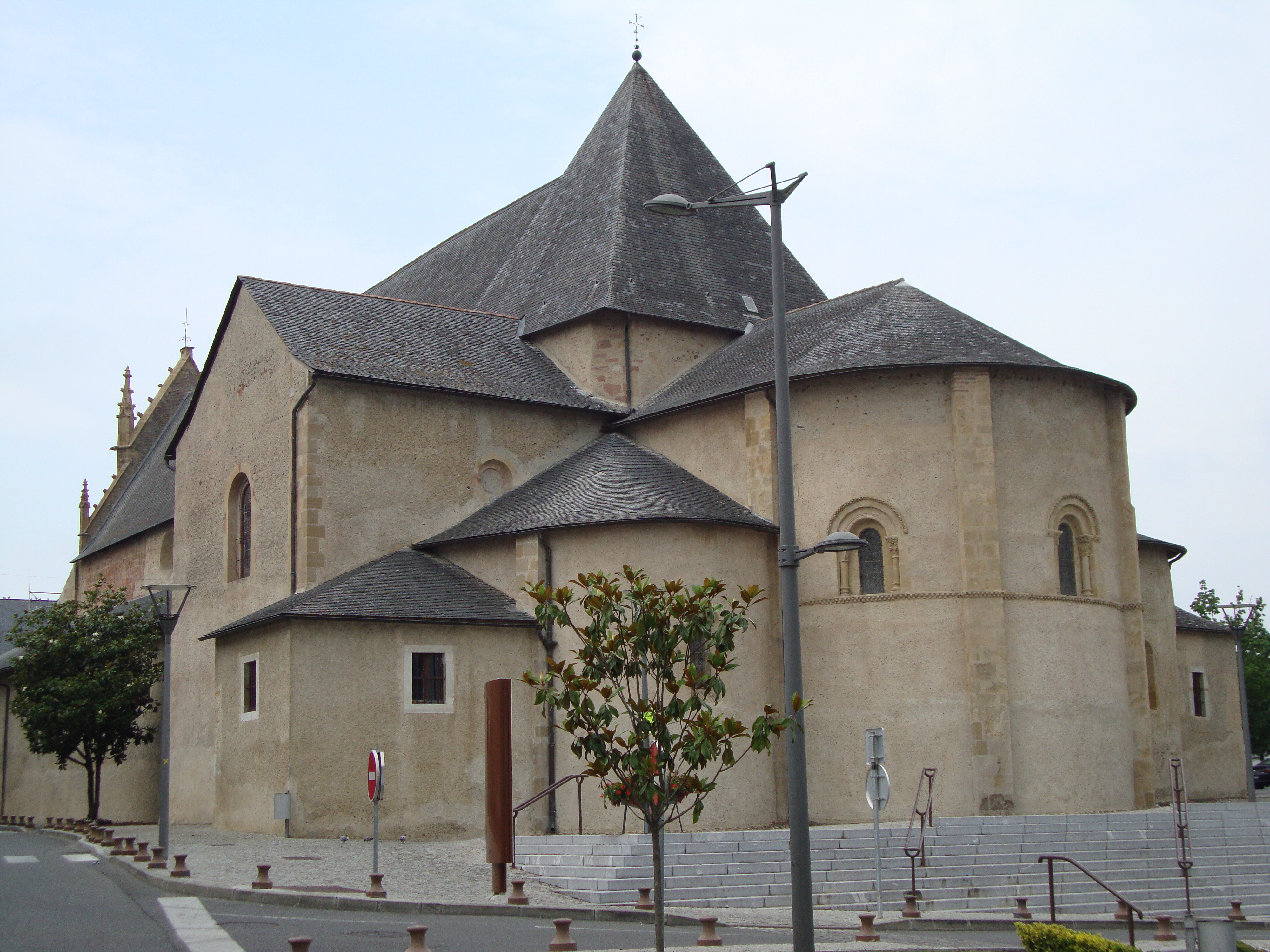 Morlaàs (Pyr-Atl, Fr) Sainte-Foy church, apse